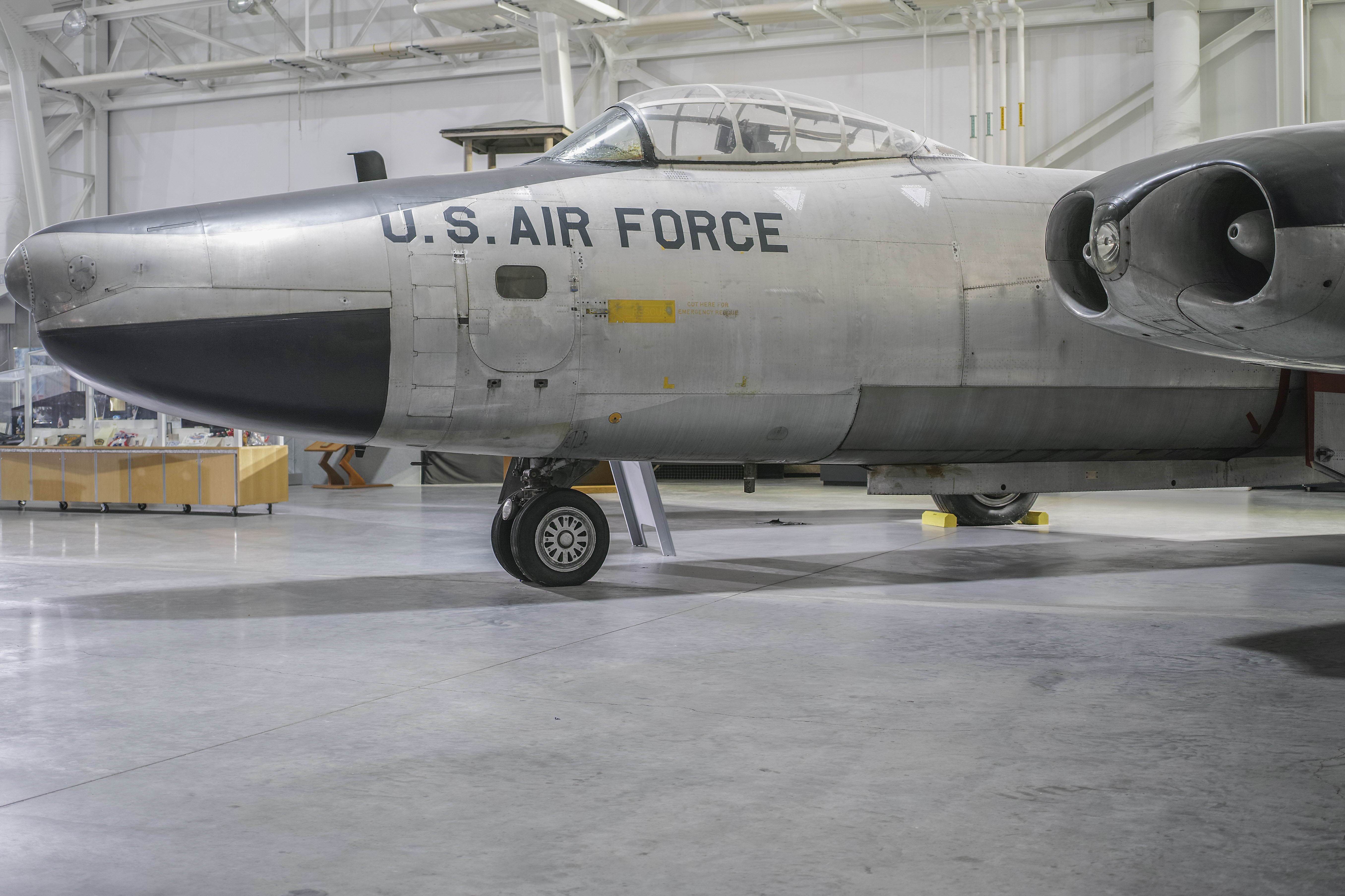 The front of the North American B-45C Tornado AF Ser. No. 48-0017 on display at the Strategic Air and Space Museum in Ashland, Nebraska